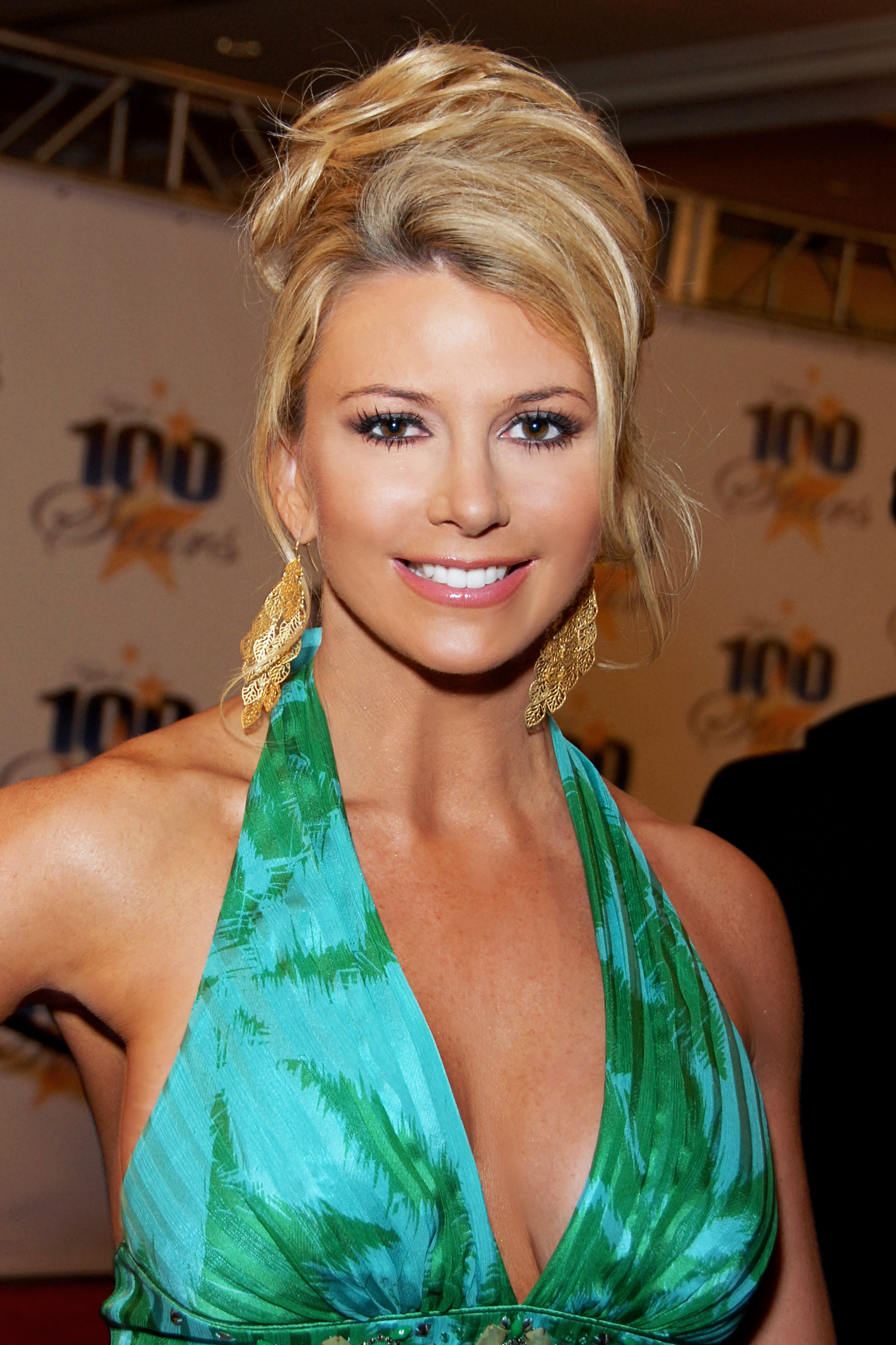 Tamie Sheffield attending the 19th Annual "Night of 100 Stars" Oscar Viewing Party at the Beverly Hills Hotel on 02/22/2009. Photo by Glenn Francis of